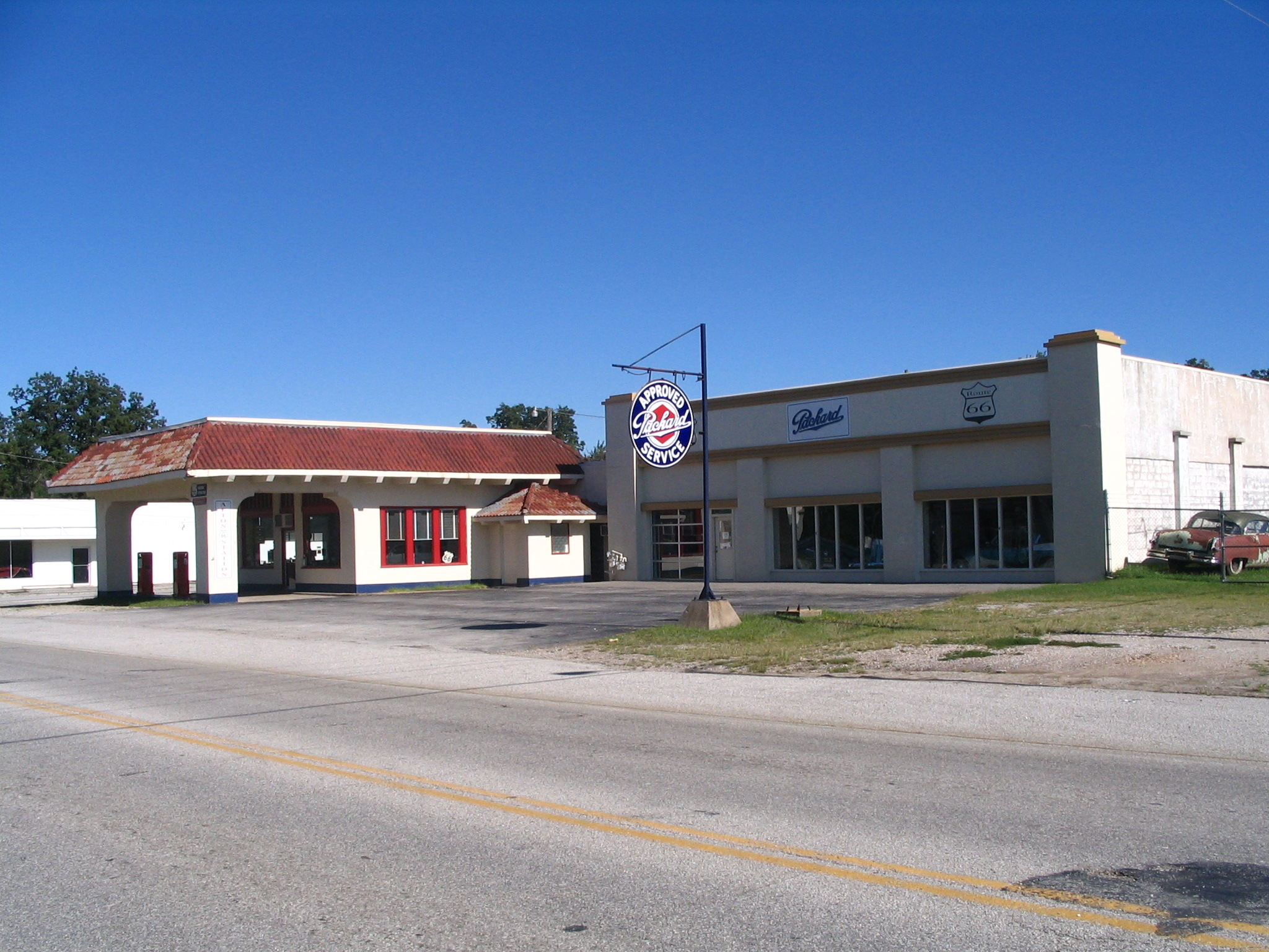 Afton station, recently restored DX gas station, now a Packard museum and visitors center in Afton, OK